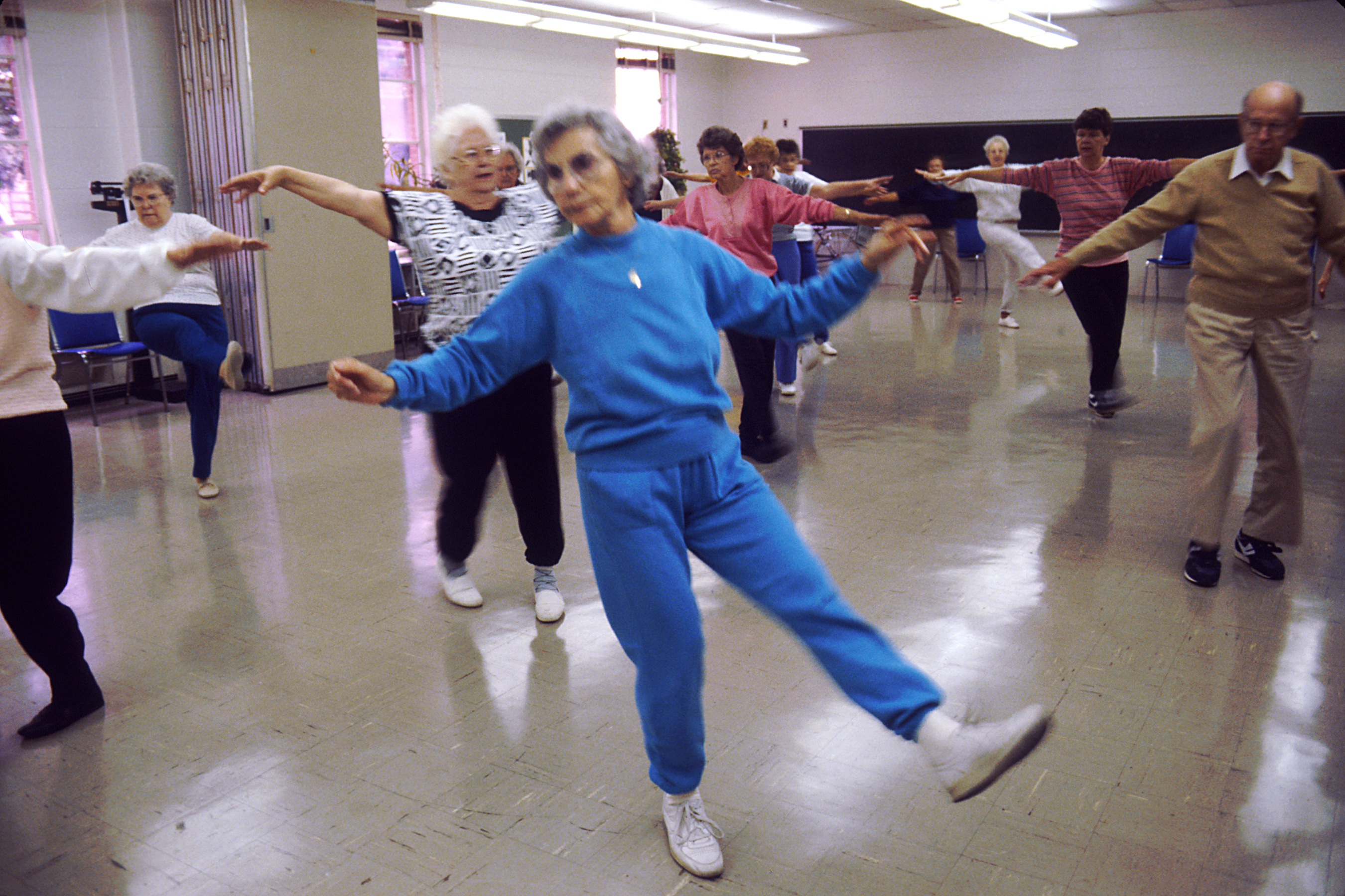 Title Aerobics Class Description Several older men and women performing aerobics at the Rockville Senior Center. Topics/Categories People -- Adult People -- Group People -- Recreation Type Color, Photo Source National Cancer Institute